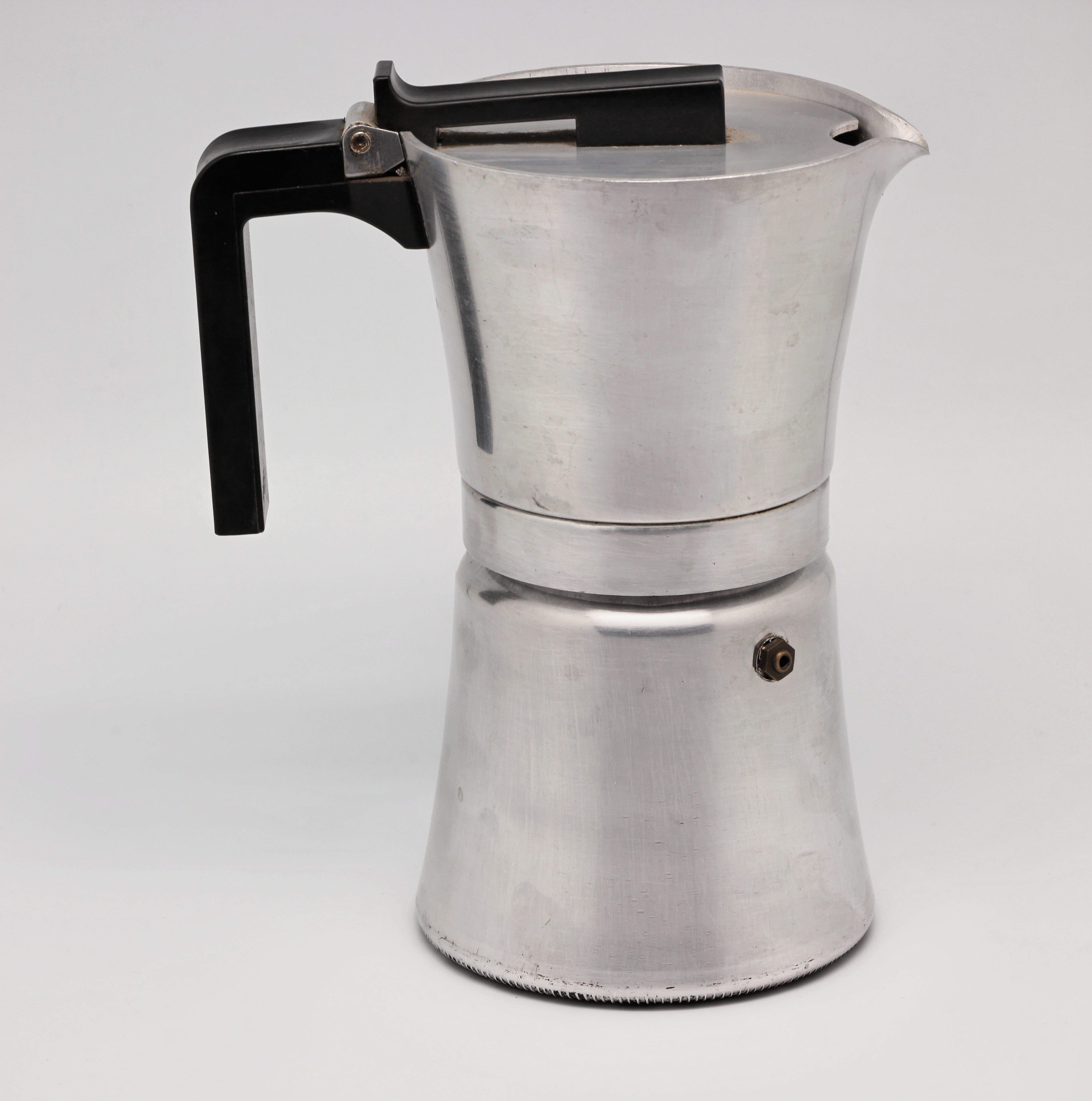 Moka pot